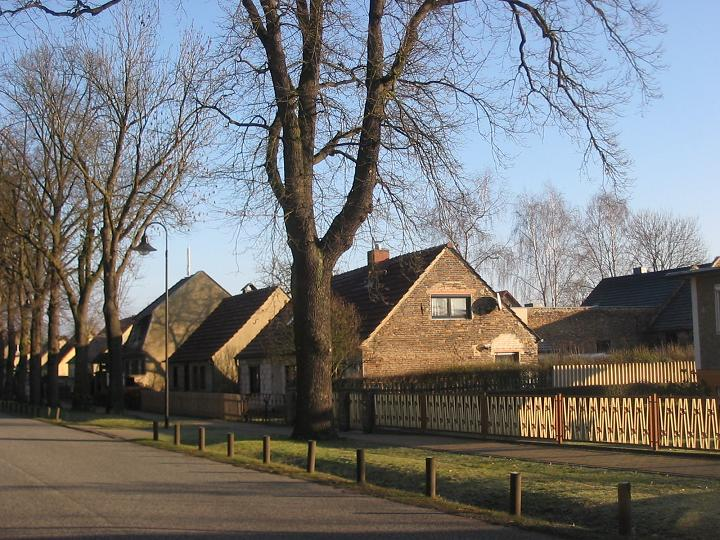 Listed street of houses in Philippsthal. The village Philippsthal is a part of the municipality Nuthetal in the district Potsdam-Mittelmark, state Brandenburg, Germany.